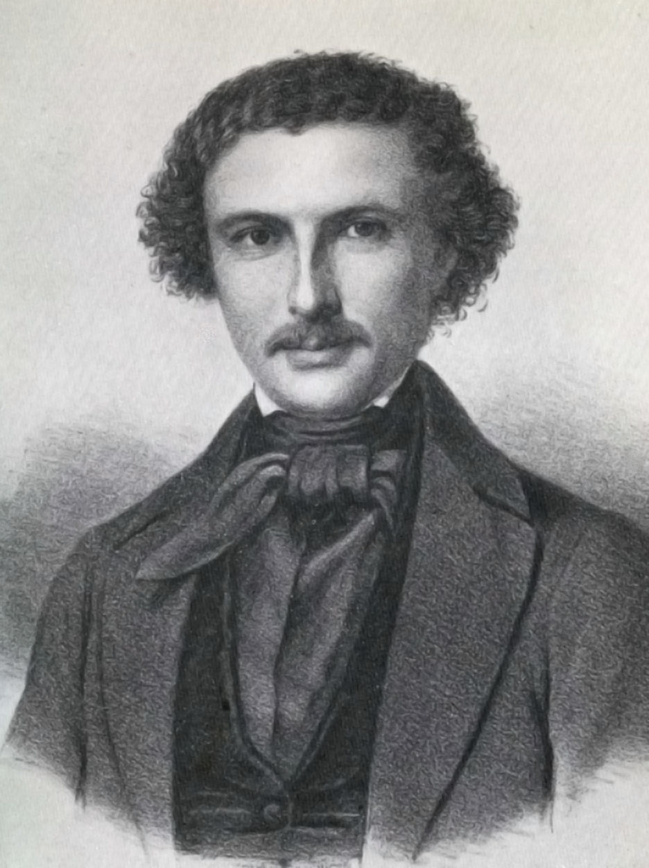 Marcus_Thrane